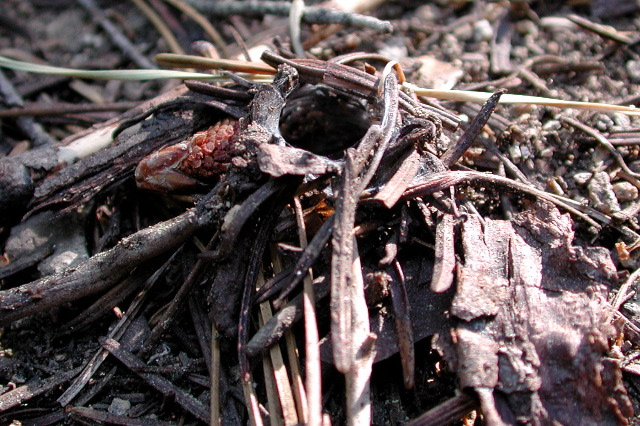 Sierran Atypoides riversi turret in northern California